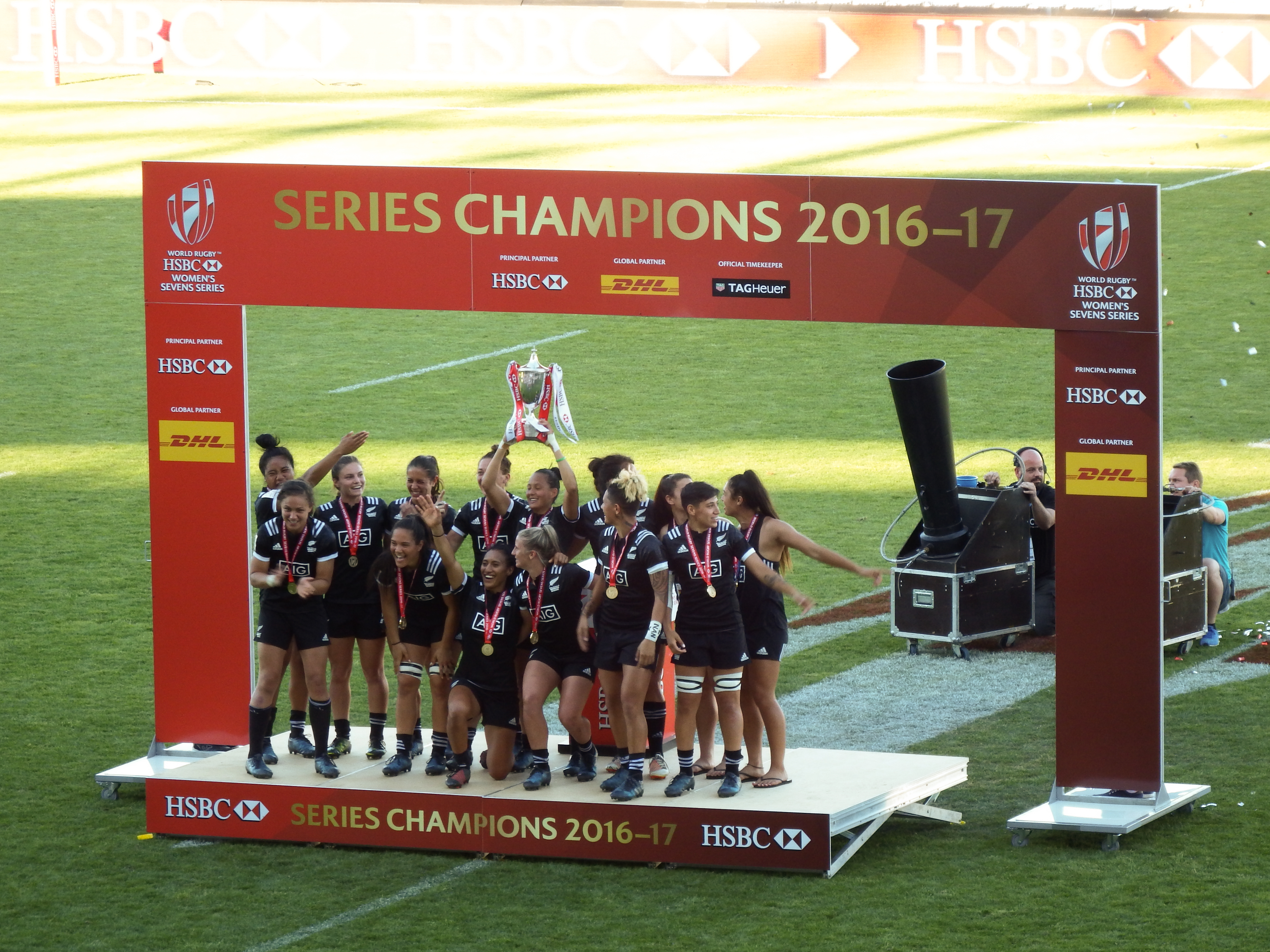 2017 France Women's Sevens — 25 June 2017, Stade Gabriel Montpied. Match between: New Zealand women's national rugby sevens team — Australia women's national rugby sevens team